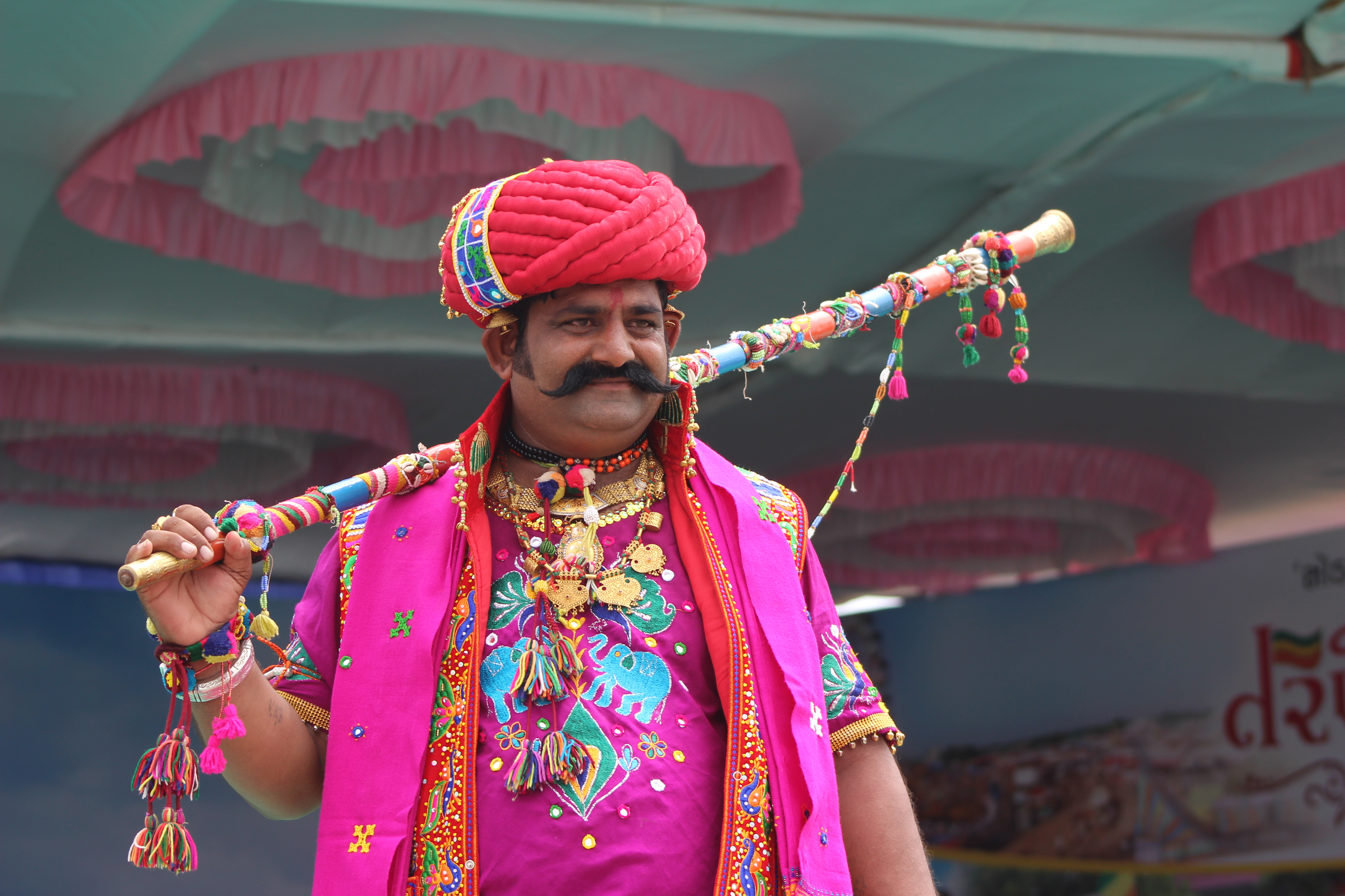 A man in traditional costumes during Tarnetar fair. This photo has been taken in the country: India